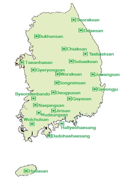 National parks of south korea